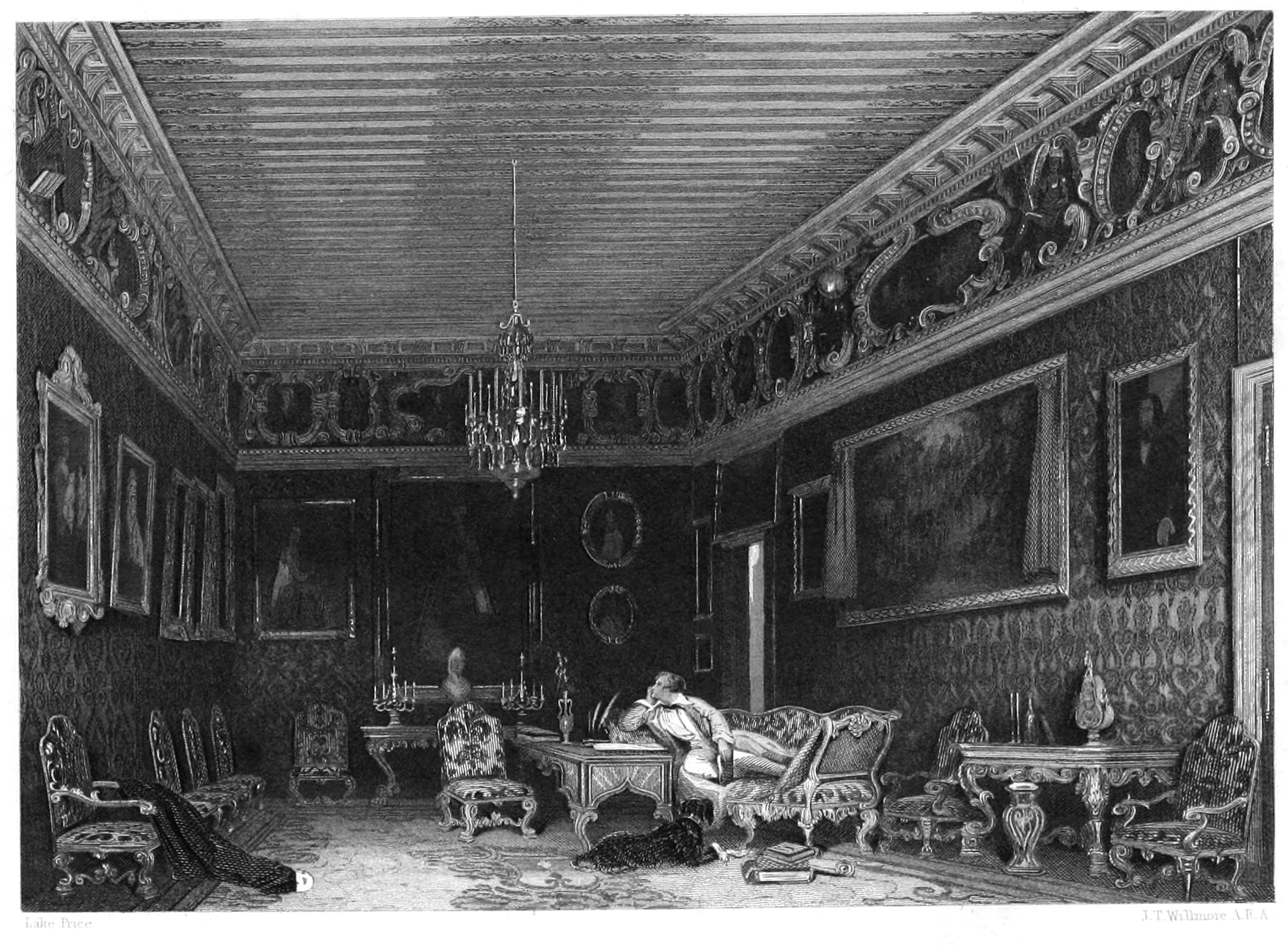 The room where Byron stayed in the Palazzo Mocenigo, Venice, engraved from a painting by William Frederick Lake Price